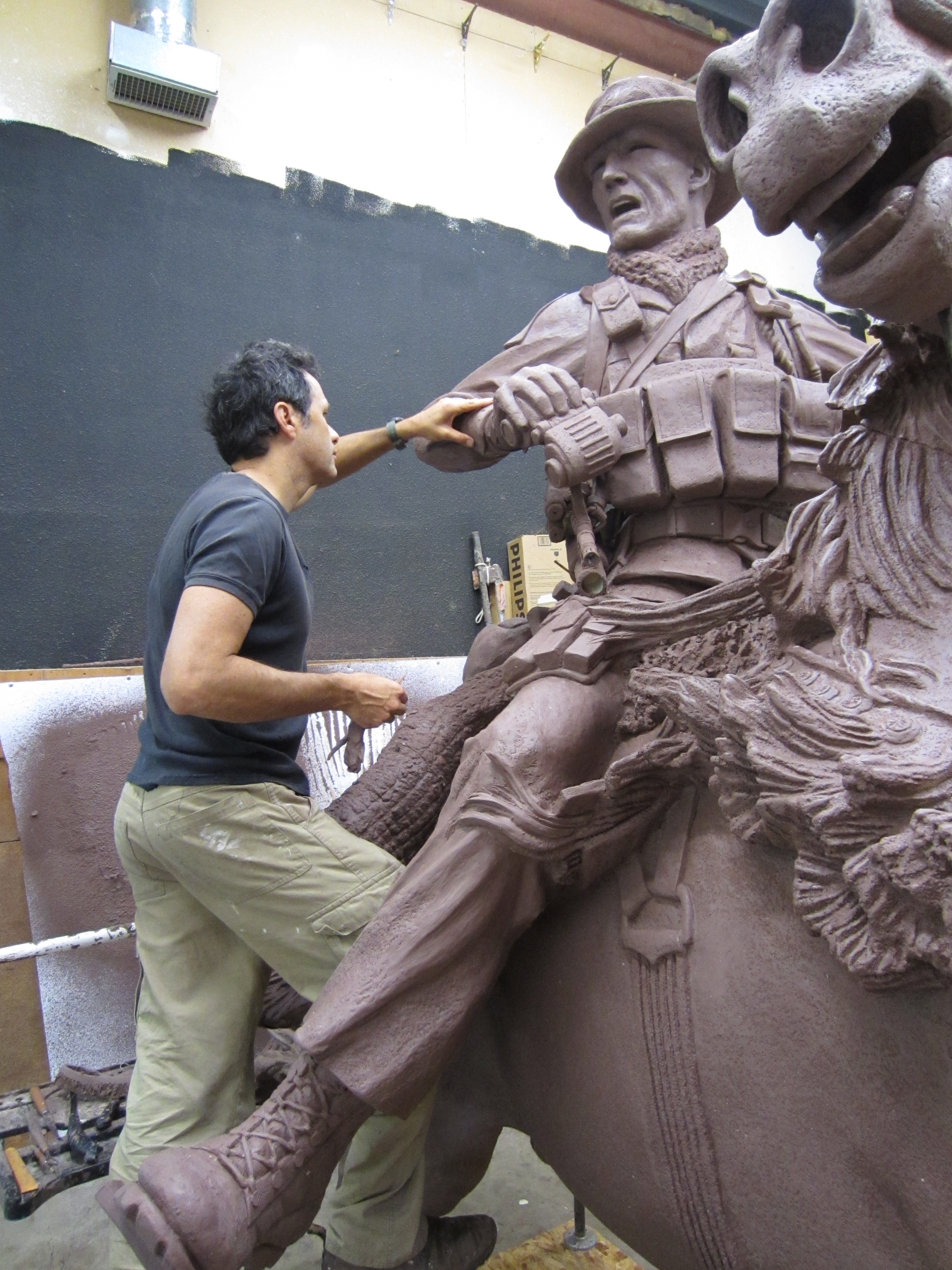 Sculptor Douwe Blumberg puts finishing touches on his clay model of the U.S. Special Forces Horse Soldiers Sculpture. The monument is titled "De Oppresso Liber", which is the motto of the Green Berets. It means ‘to liberate the oppressed’. The base is subtitled “America’s Response Monument.”